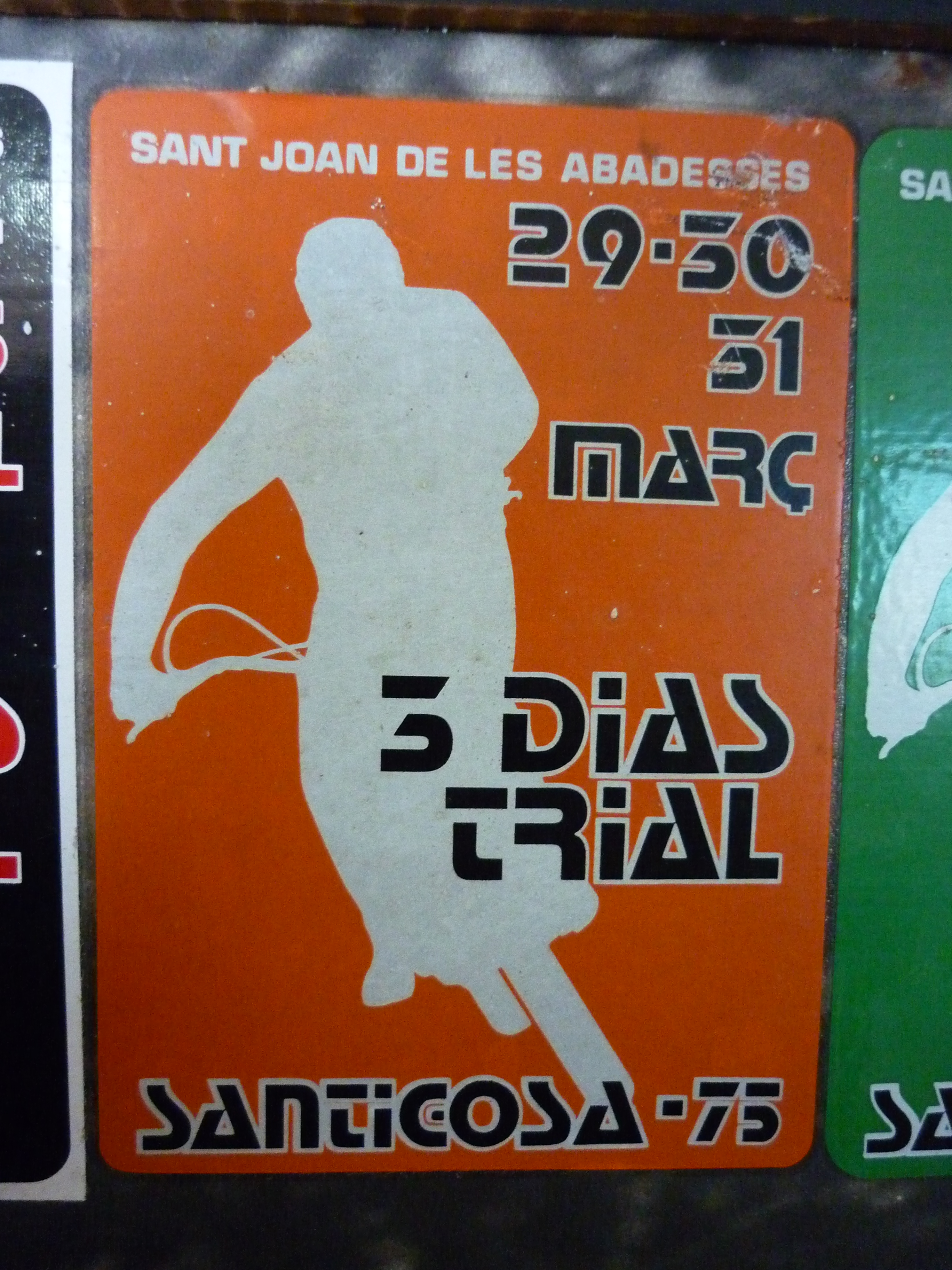 Tres Dies de Trial de Santigosa 1975 logo.Isern Motorcycle Museum, Mollet del Vallès (Catalonia).